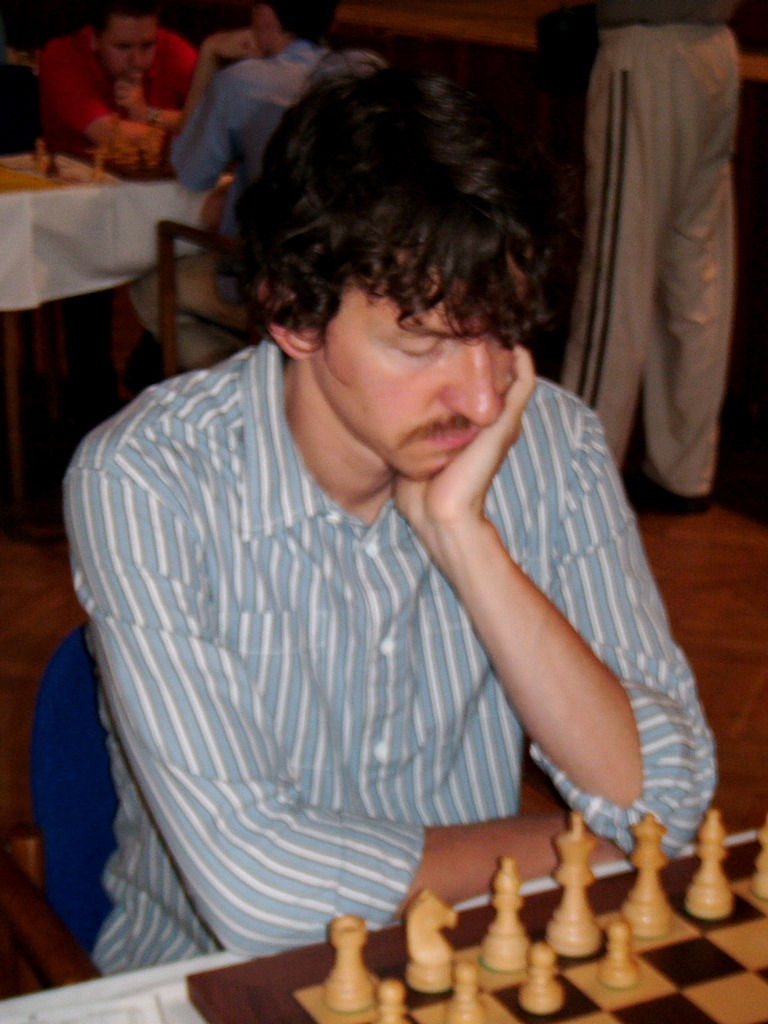 Grandmaster Tomas Polak playing in the Olomouc Chess Summer 2010 in Olomouc (Czech Republic)